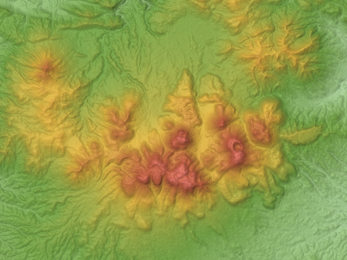 Kuju Volcano in Oita Prefecture, Kyushu, Japan.